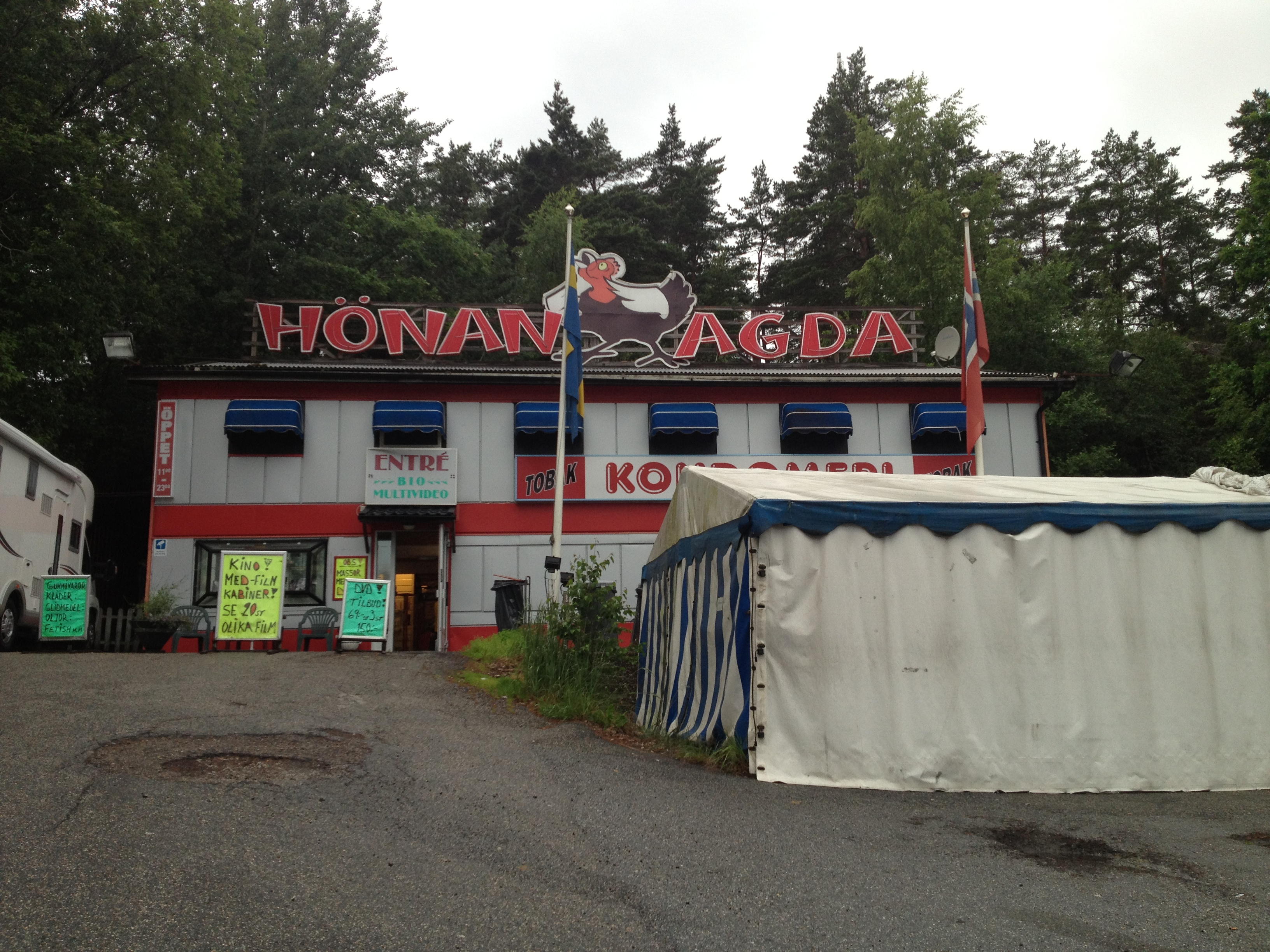 Hönan Agda, a sex shop in Svinesund (Sweden), close to the Norwegian border.